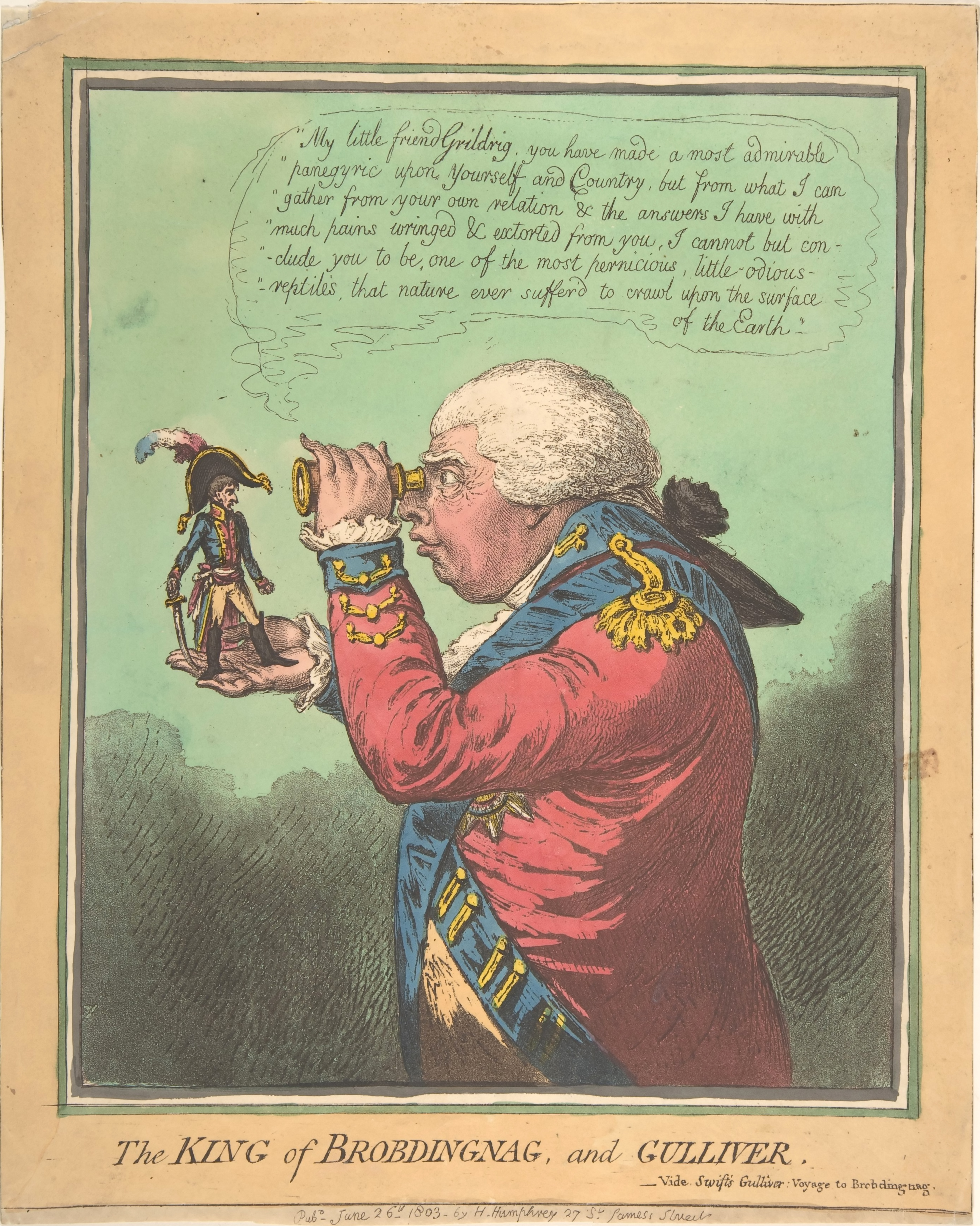 King of Brobdingnag and Gulliver Jonathan Swift's Gulliver's Travels. Gilray reuses some of his stock characters; George III of the United Kingdom as the "King of Brobdingnag" and a miniscule General Napoleon in the role of "Gulliver".